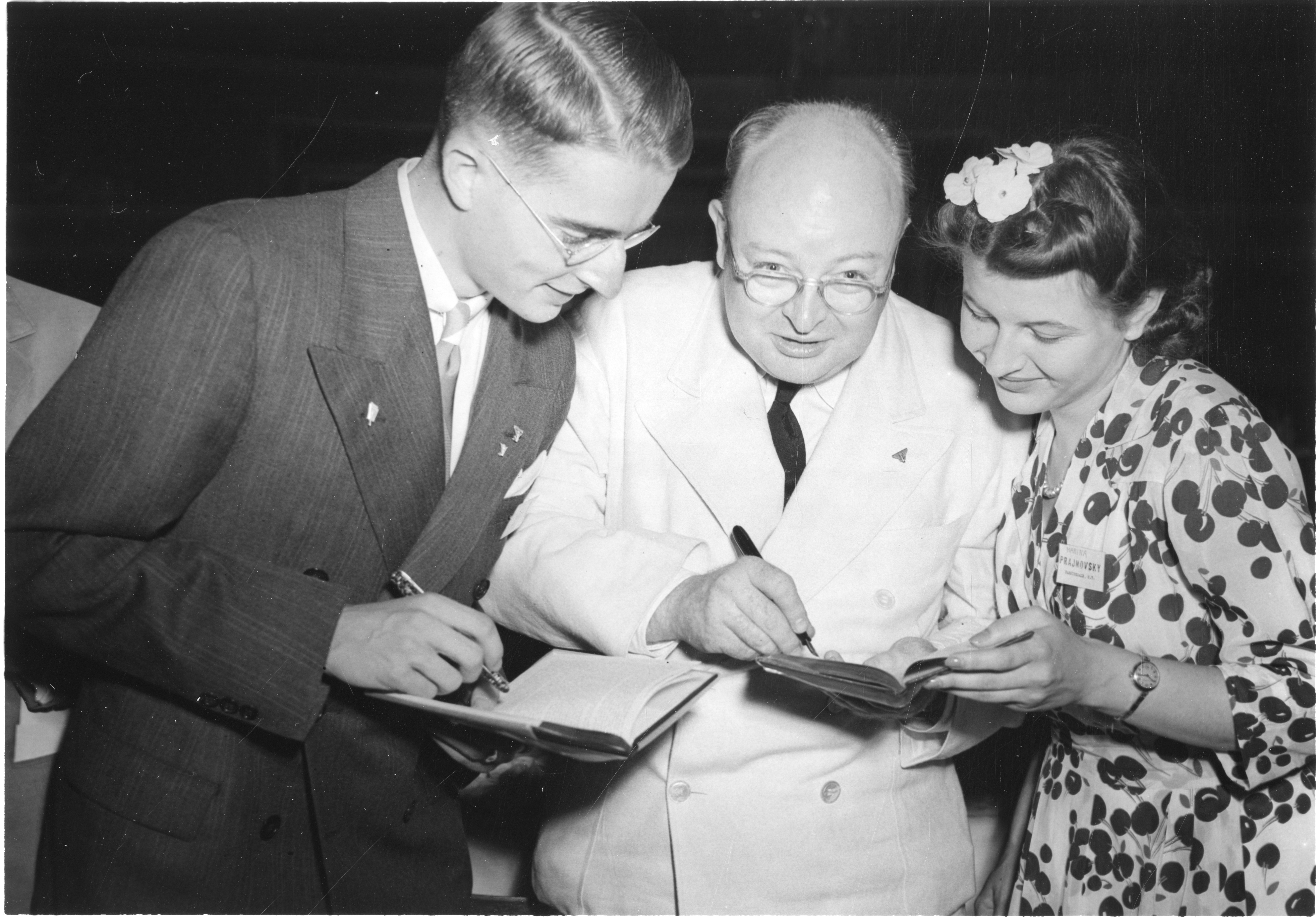 Creator: Davis, Fremont 1915- Subject: Teschan, Paul E. 1923- Davis, Watson 1896-1967 Prajmovsky, Marina 1924-1974 Science Service Type: Black-and-white photographs Date: 1942 Topic: Science fairs Women scientists Local number: SIA Acc. 90-105 [SIA2009-4099] Summary: The winners of the first Science Talent Search competition, Paul E. Teschan (1923- ) and Marina Prajmovsky (1924-1974), are shown with Science Service director, Watson Davis (1896-1967). Prajmovsky had immigrated to the United States from Finland when she was four, and her essay on Chemical Death to Infection won the competition that year. Prajmovsky used her $2,400 scholarship to attend Radcliffe College. After graduation, she conducted research on eye diseases at Columbia-Presbyterian Medical Center in New York and also worked for the Navy Cite as: Acc. 90-105 - Science Service, Records, 1920s-1970s, Smithsonian Institution Archives Persistent URL: Repository:Smithsonian Institution Archives View more collections from the Smithsonian Institution.